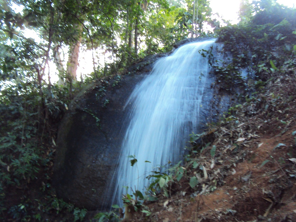 Another natural view near campus